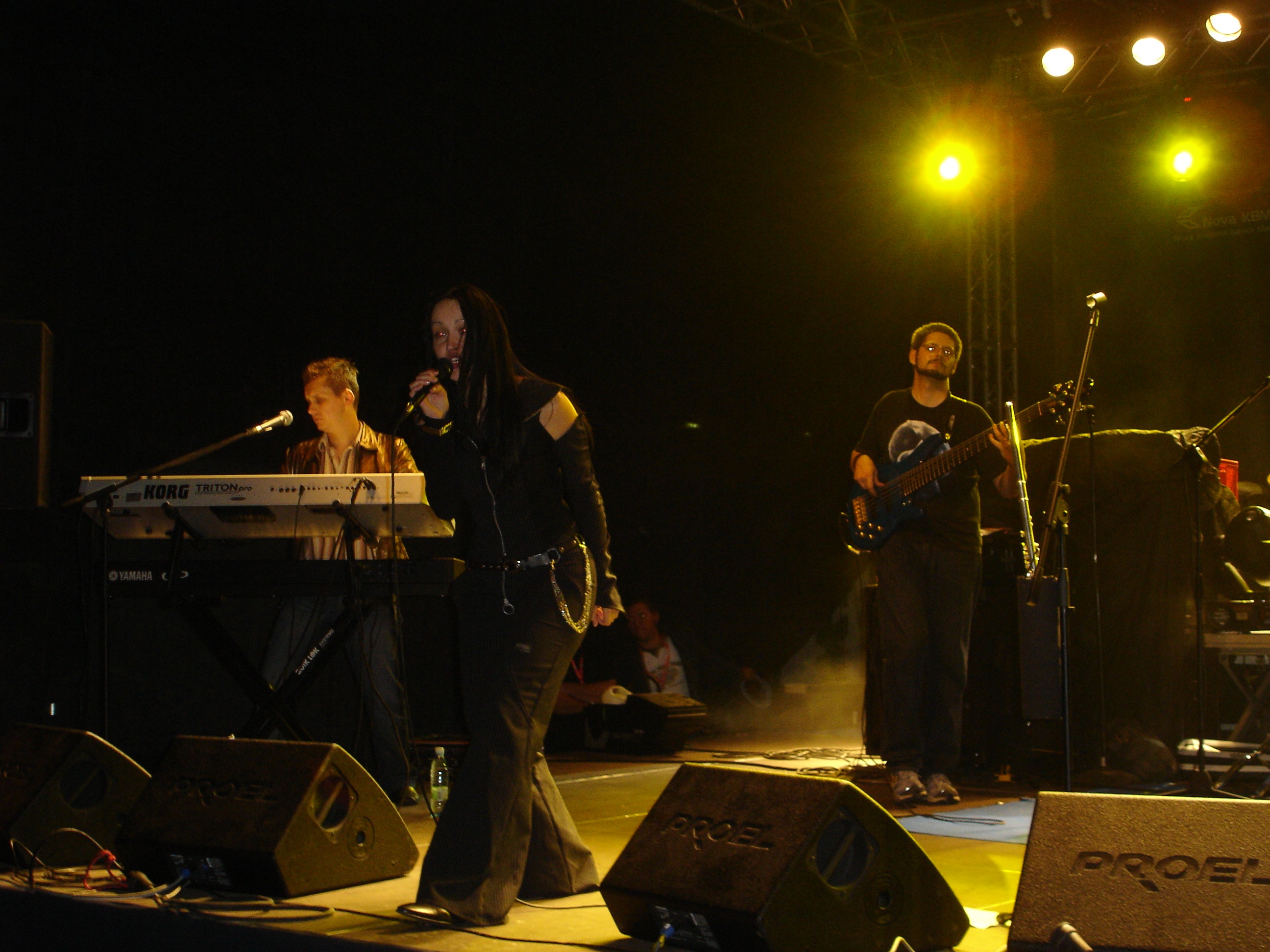 Tinkara Kovač performing on Festival Lent in Maribor.